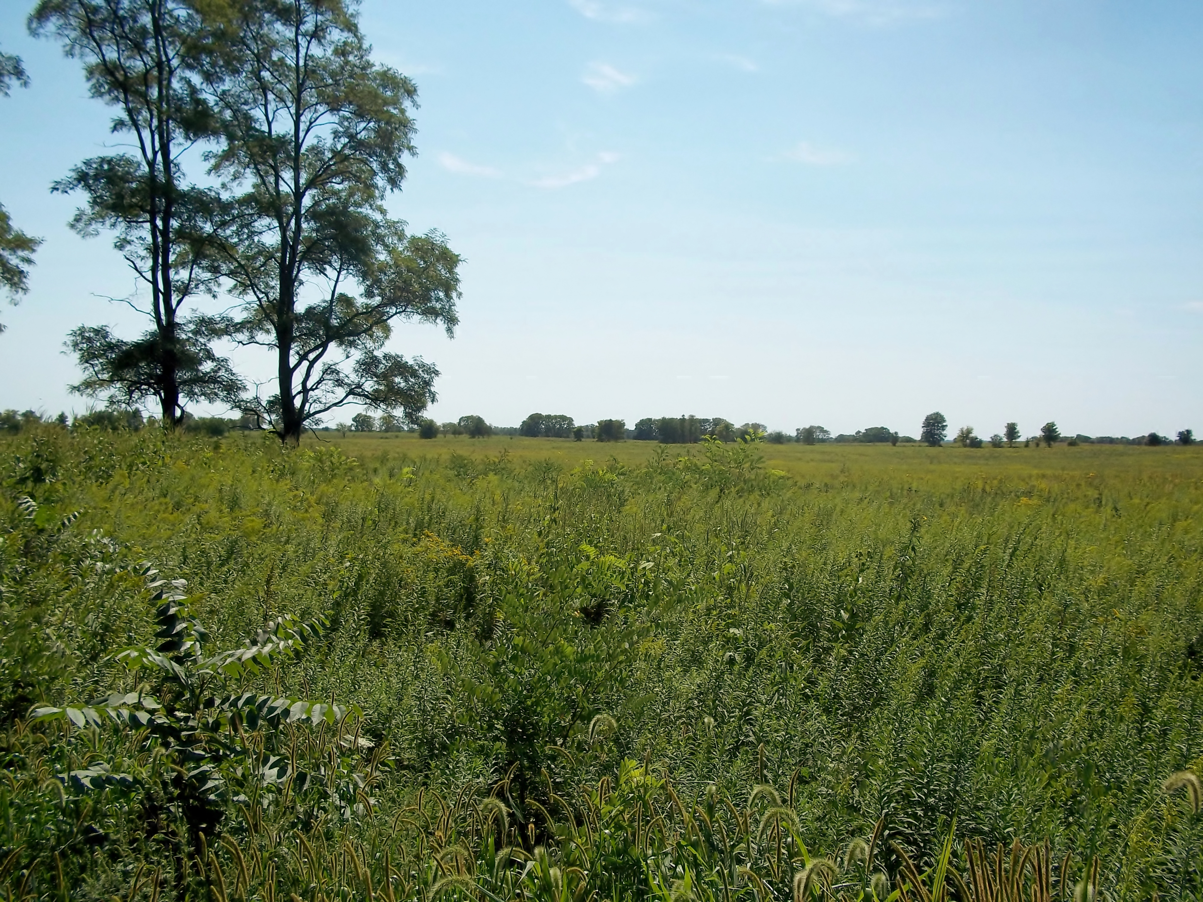 The Midewin National Tallgrass Prairie. A tallgrass prairie in Will County, northeastern Illinois.